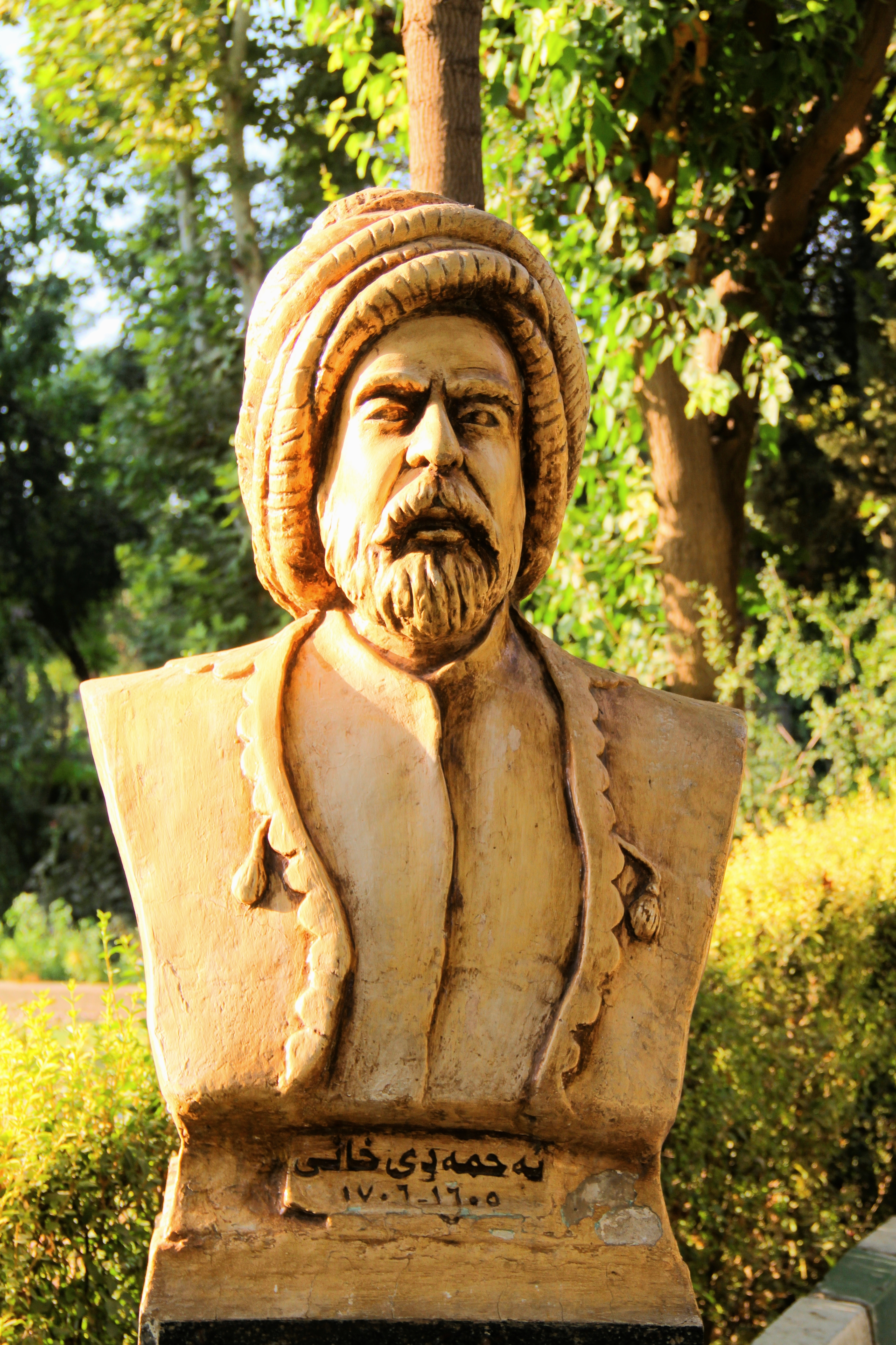 Statue of Kurdish poet and writer Ahmadi Xani in Sulaymaniyah, Kurdistan, Iraq